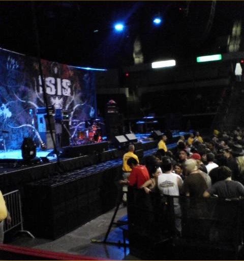 Isis opening for Tool Bakersfield, CA September, 2006